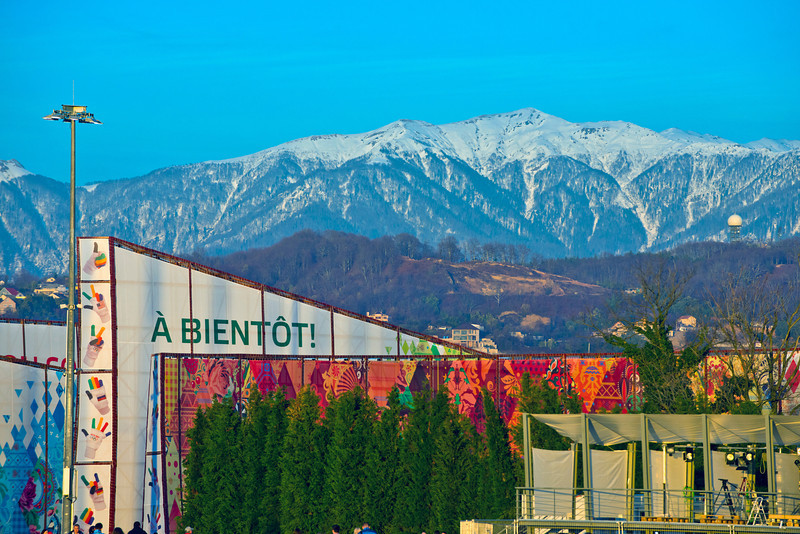 Pre Games, Night view of Olympic Park in Sochi. à Bientôt !